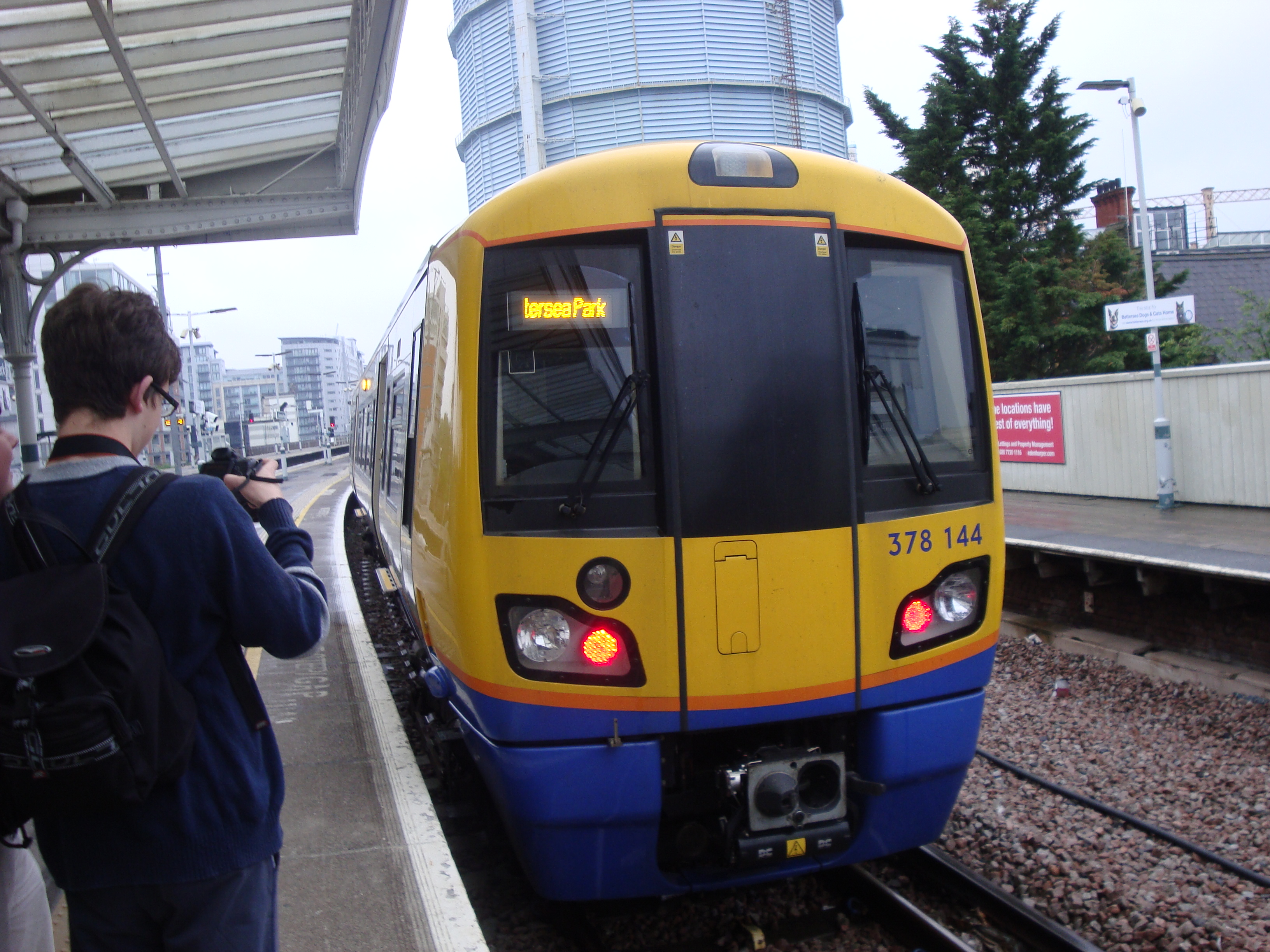 London Overground 378144, Battersea Park